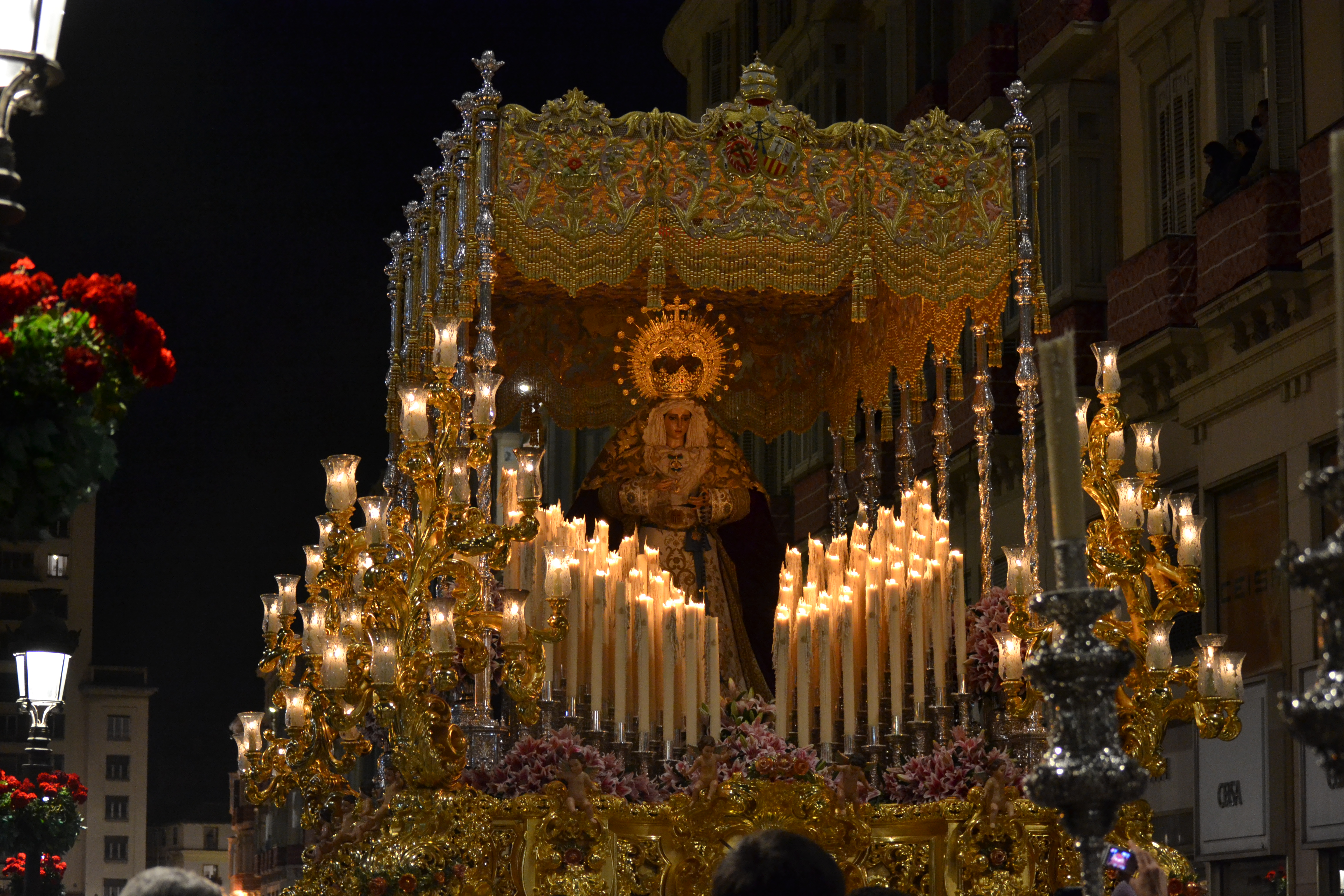 María Stma de Consolación y Lágrimas (Sangre) - Holy Week 2012, Málaga, Spain.